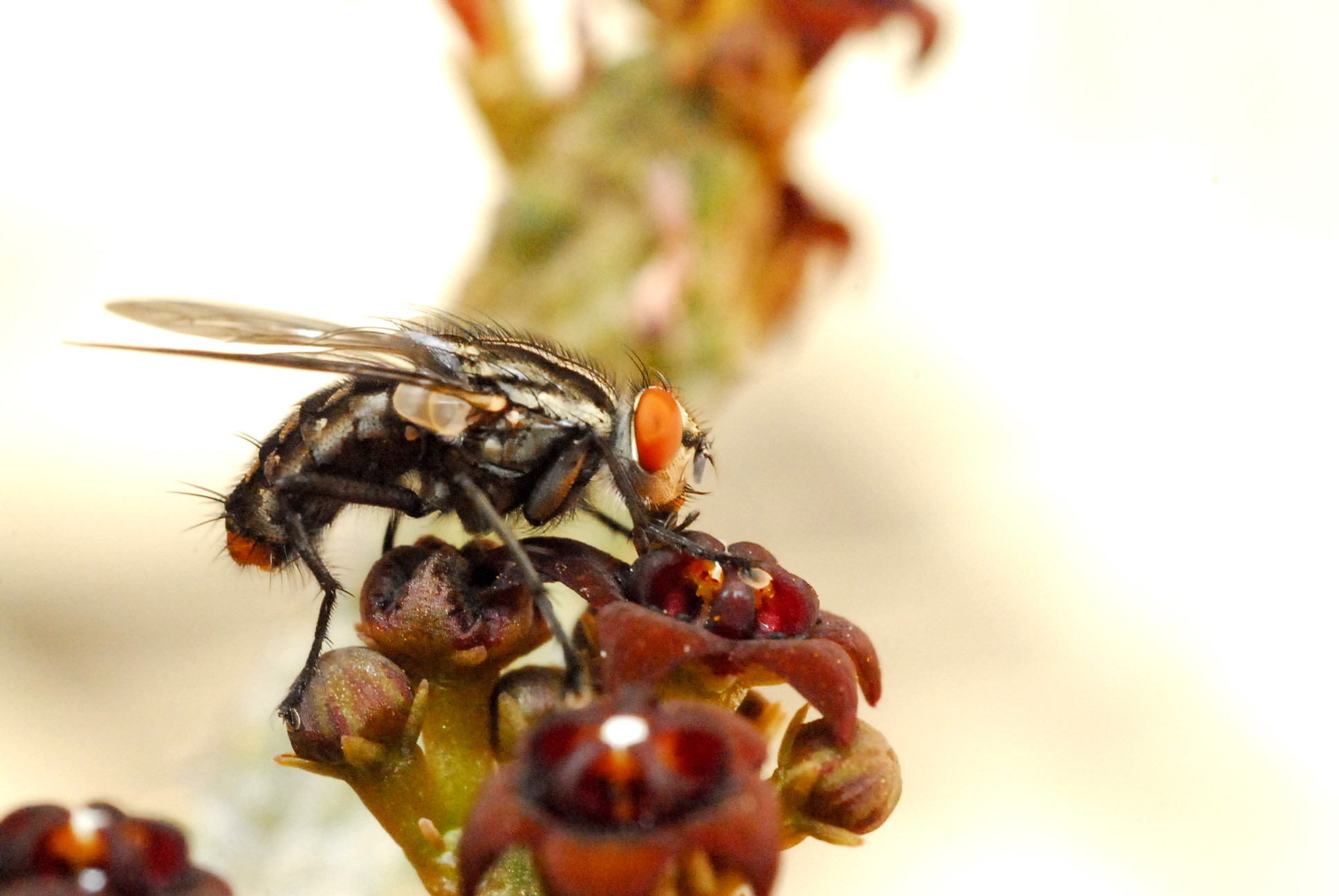 This is the flower of Anomalluma dodsoniana being pollinated by a fly